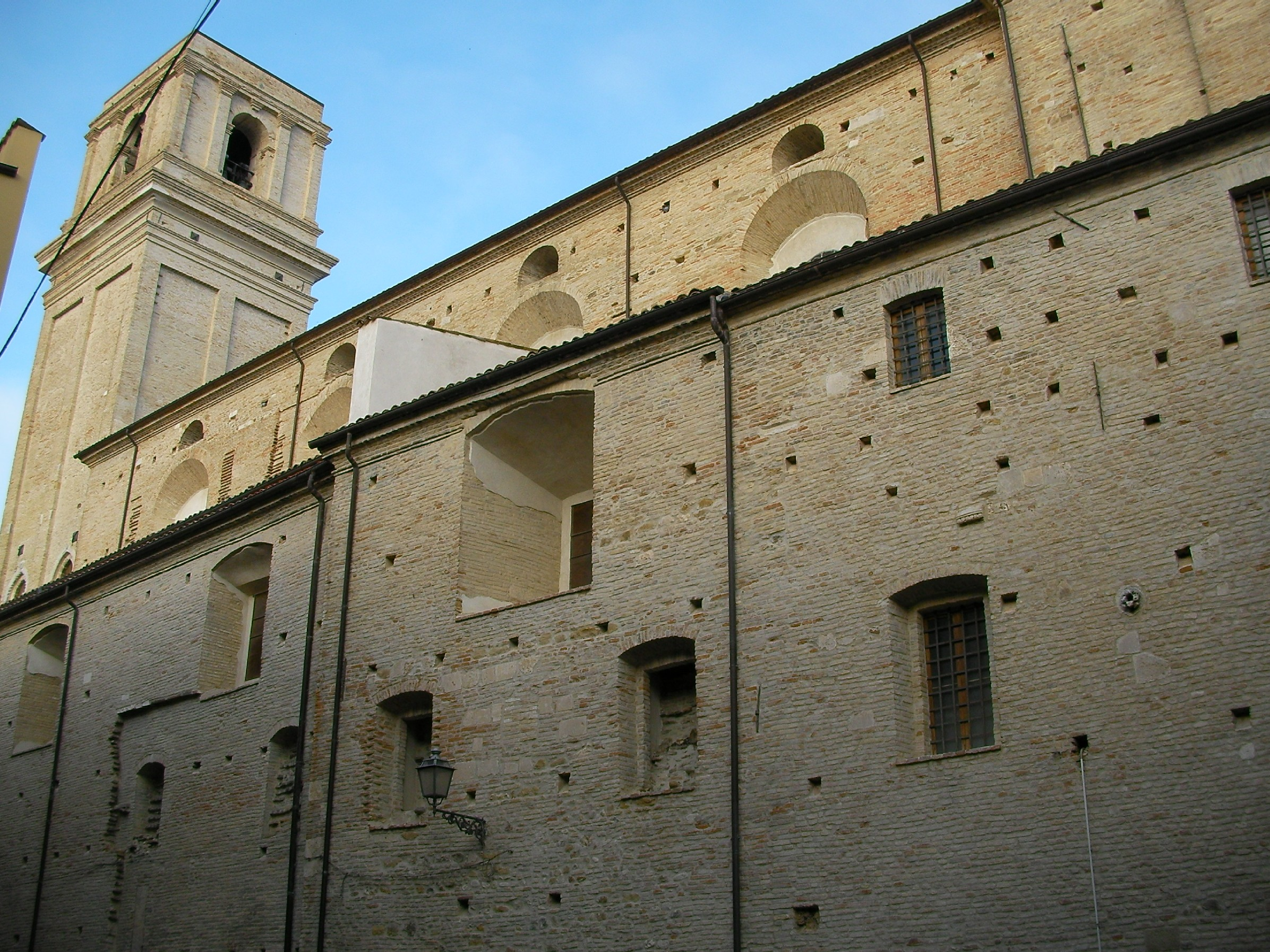 The church of Saint Mary Major, Vasto, province of Chieti, Abruzzo, Italy